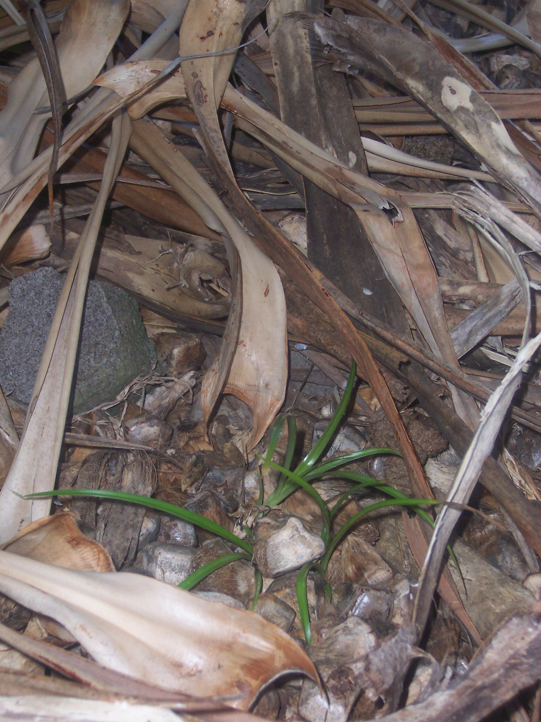 Pandanus heterocarpus (